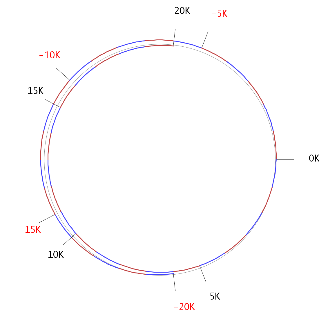 The earth's north pole movement from 20000 BC to 20000 AD